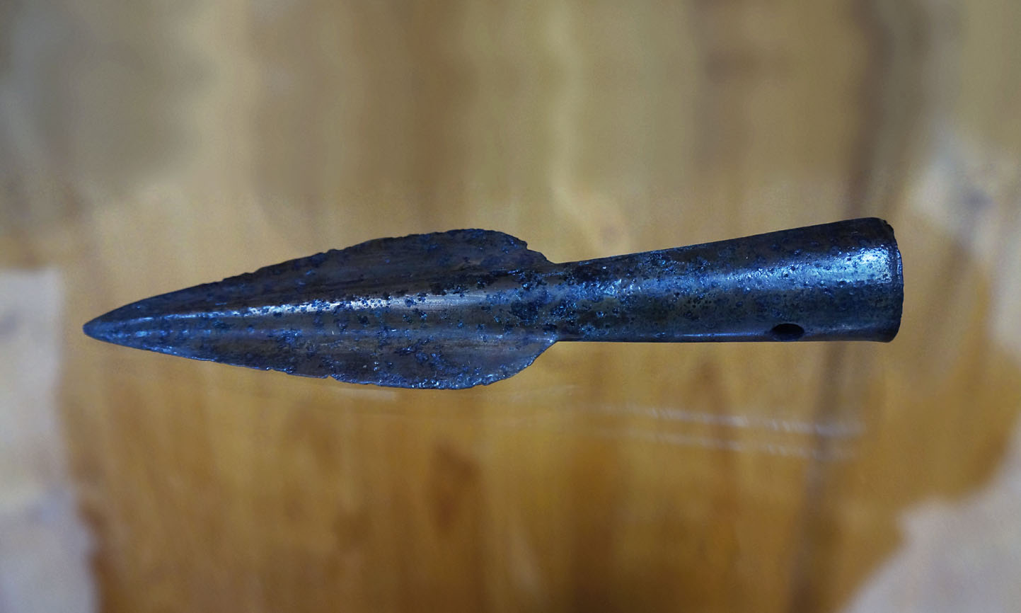 Senta/Zenta museum exhibit: a Bronze Age arrow dug out at "Velebit" archeological site (Bačka), around 1970